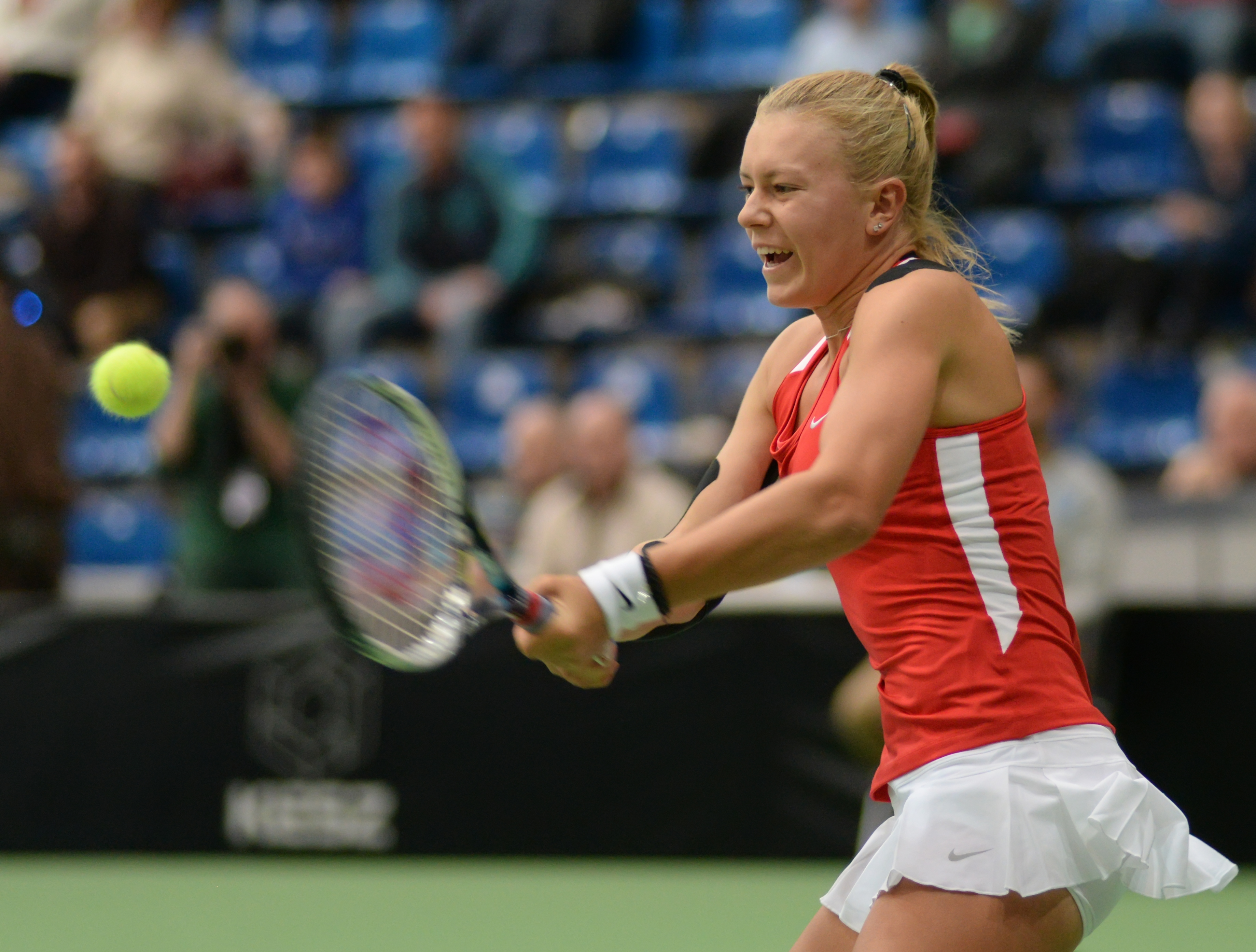 Dalma Gálfi at the 2015 Fed Cup